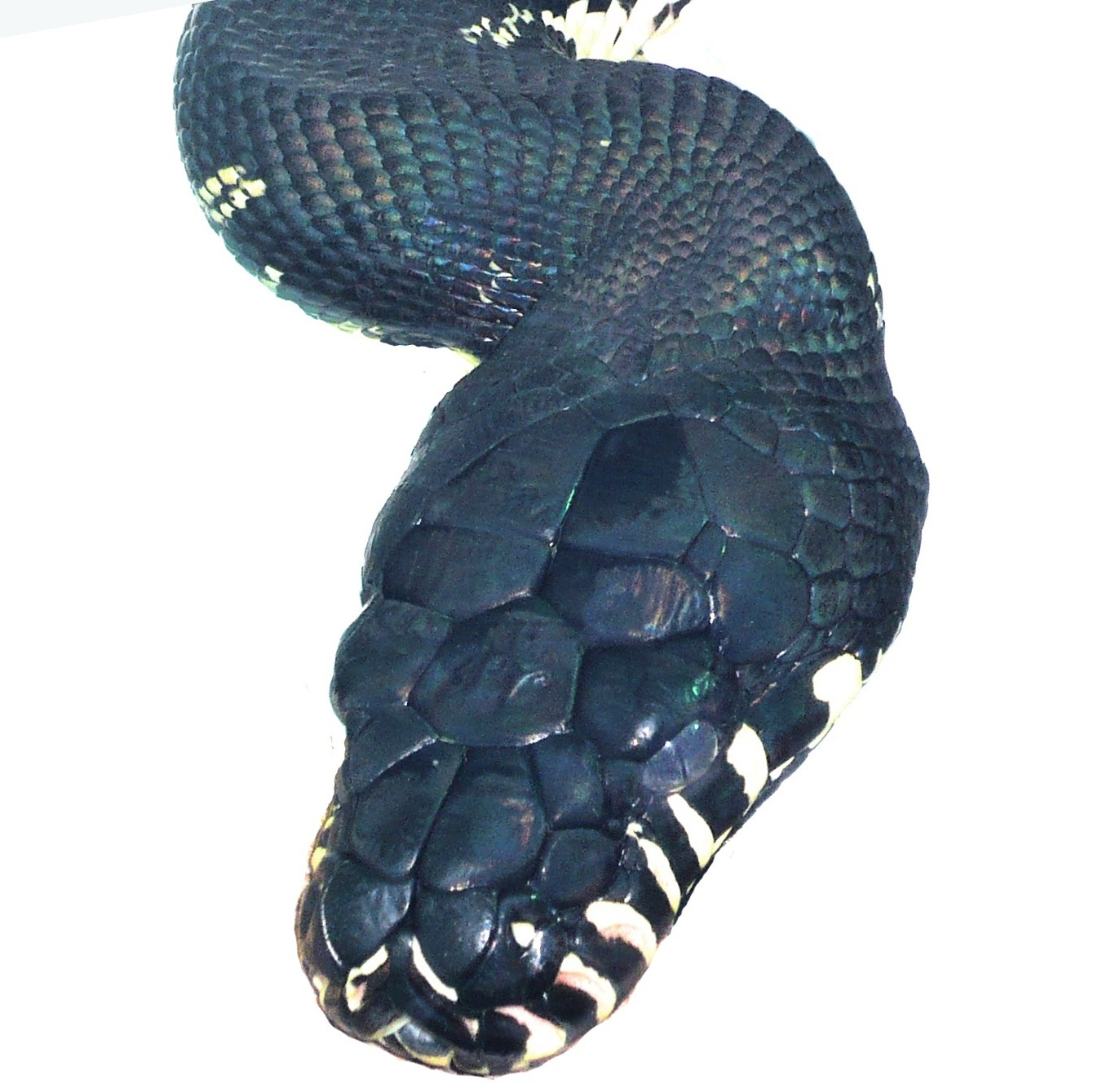 Dorsal view of the head of an adult Boelen's Python (Morelia boeleni). This specimen lives in captivity (Andreas Ballaman, Switzerland)